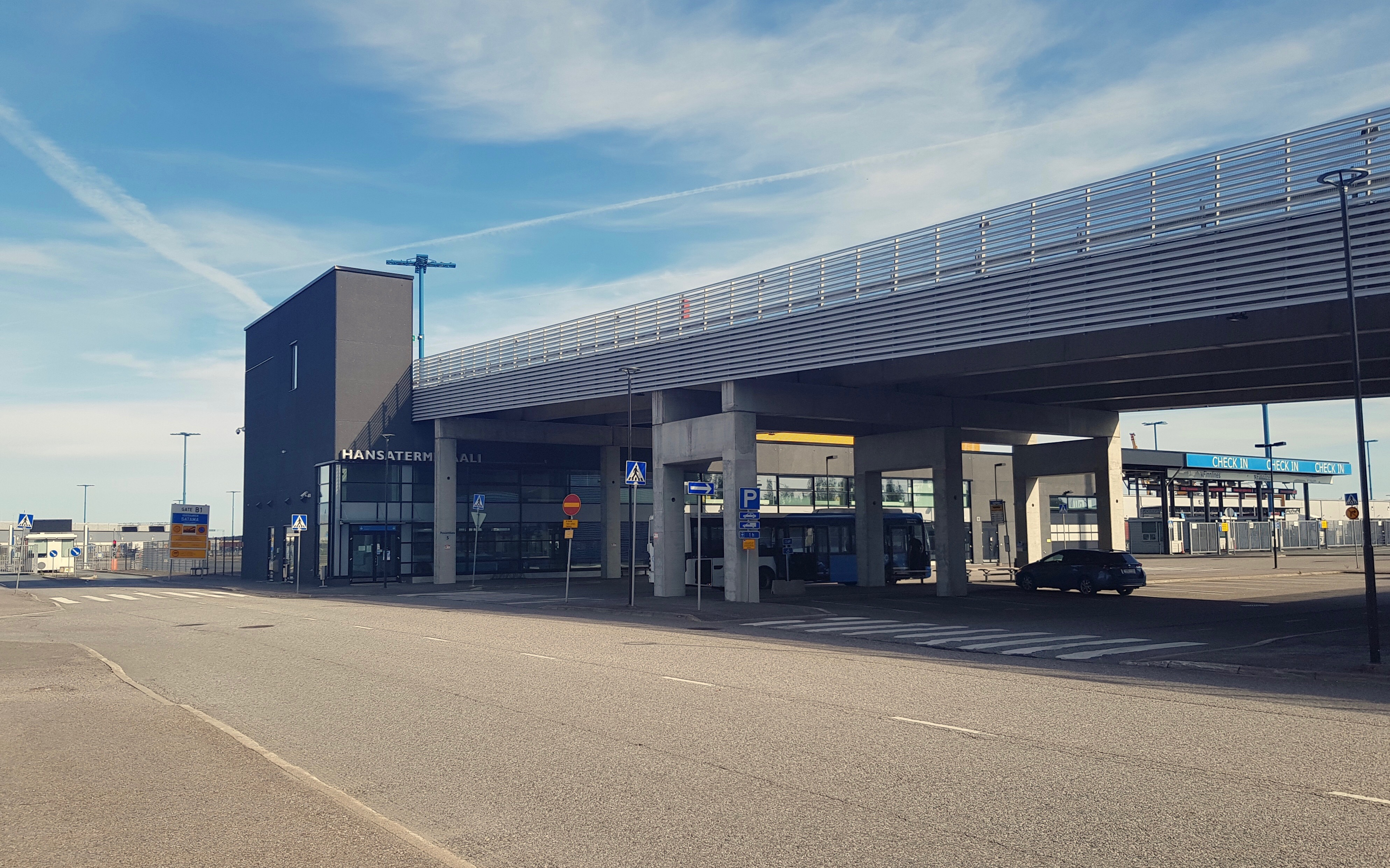 Gate of Hansaterminaali terminal in Vuosaari harbour, Helsinki, Finland.